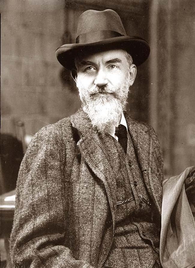 Anglo-Irish playwright George Bernard Shaw